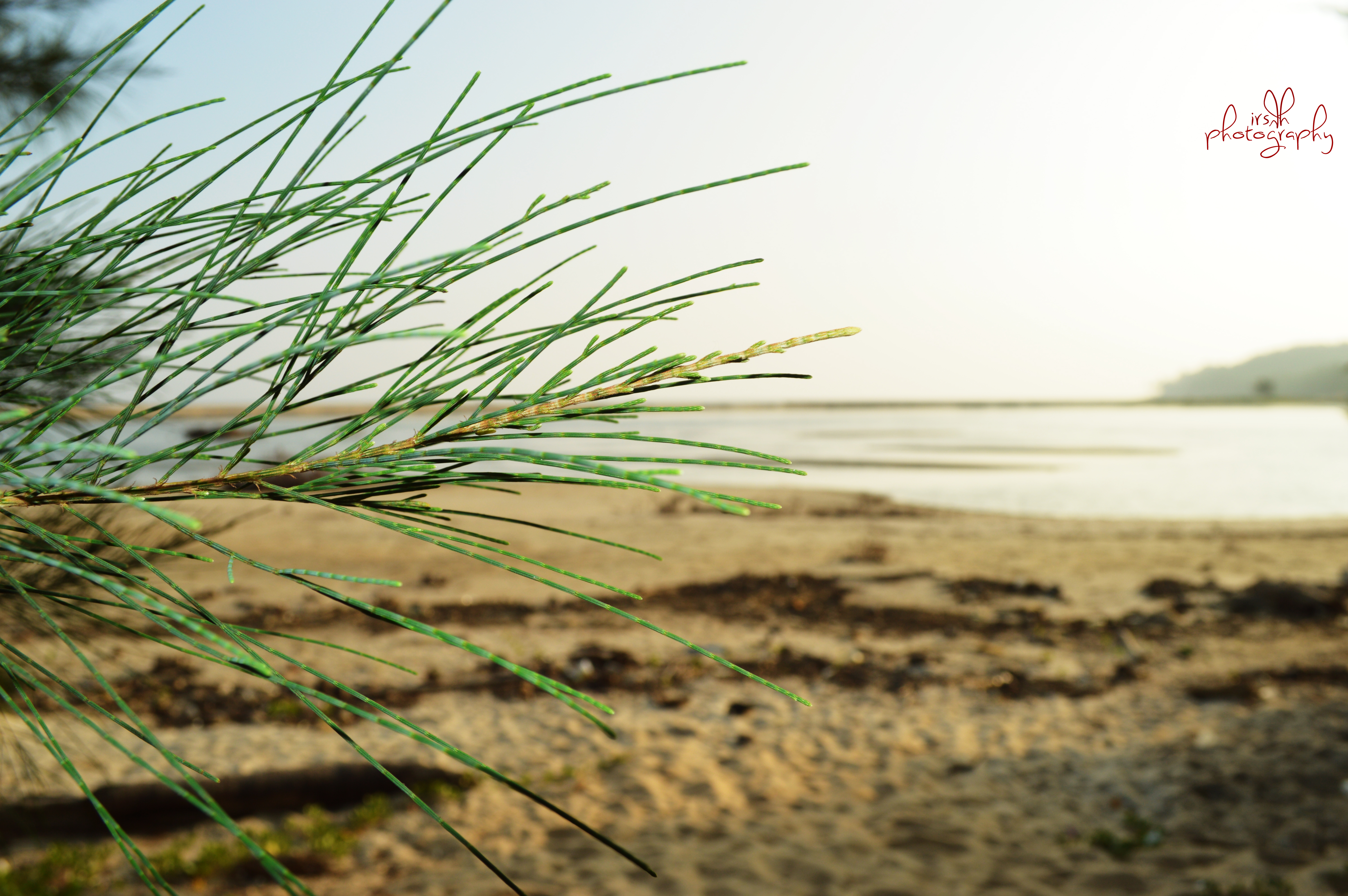 Beach